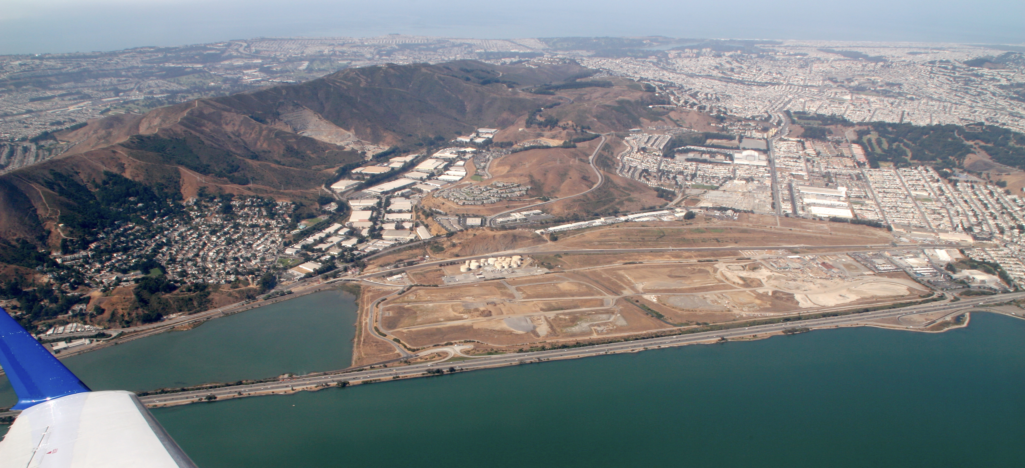 this is a sort of no-mans land between Candlestick Park (or whatever the hell it's called now) and Brisbane, on the slope of San Bruno Mountain, just south of San Francisco.